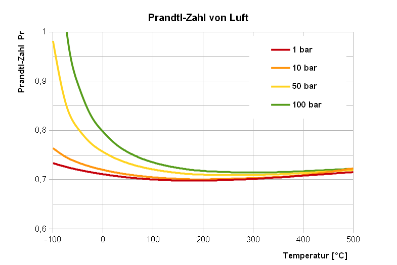 Prandtl number for air